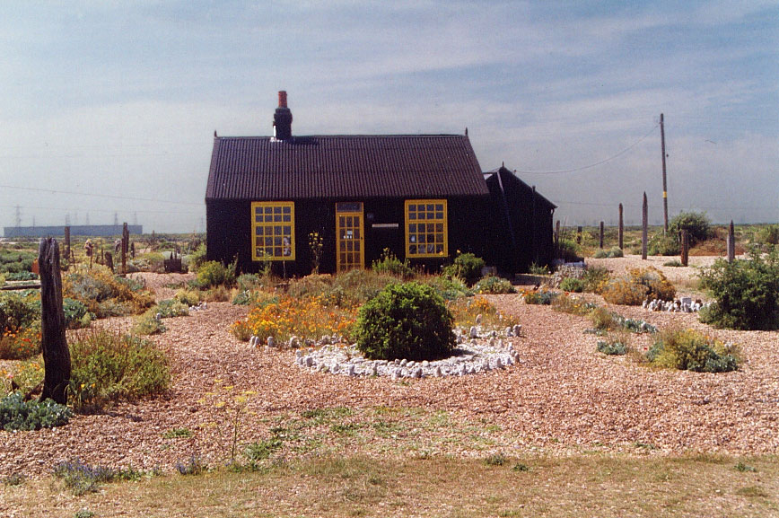 Prospect Cottage, Dungeness, formerly owned by film-maker Derek Jarman.